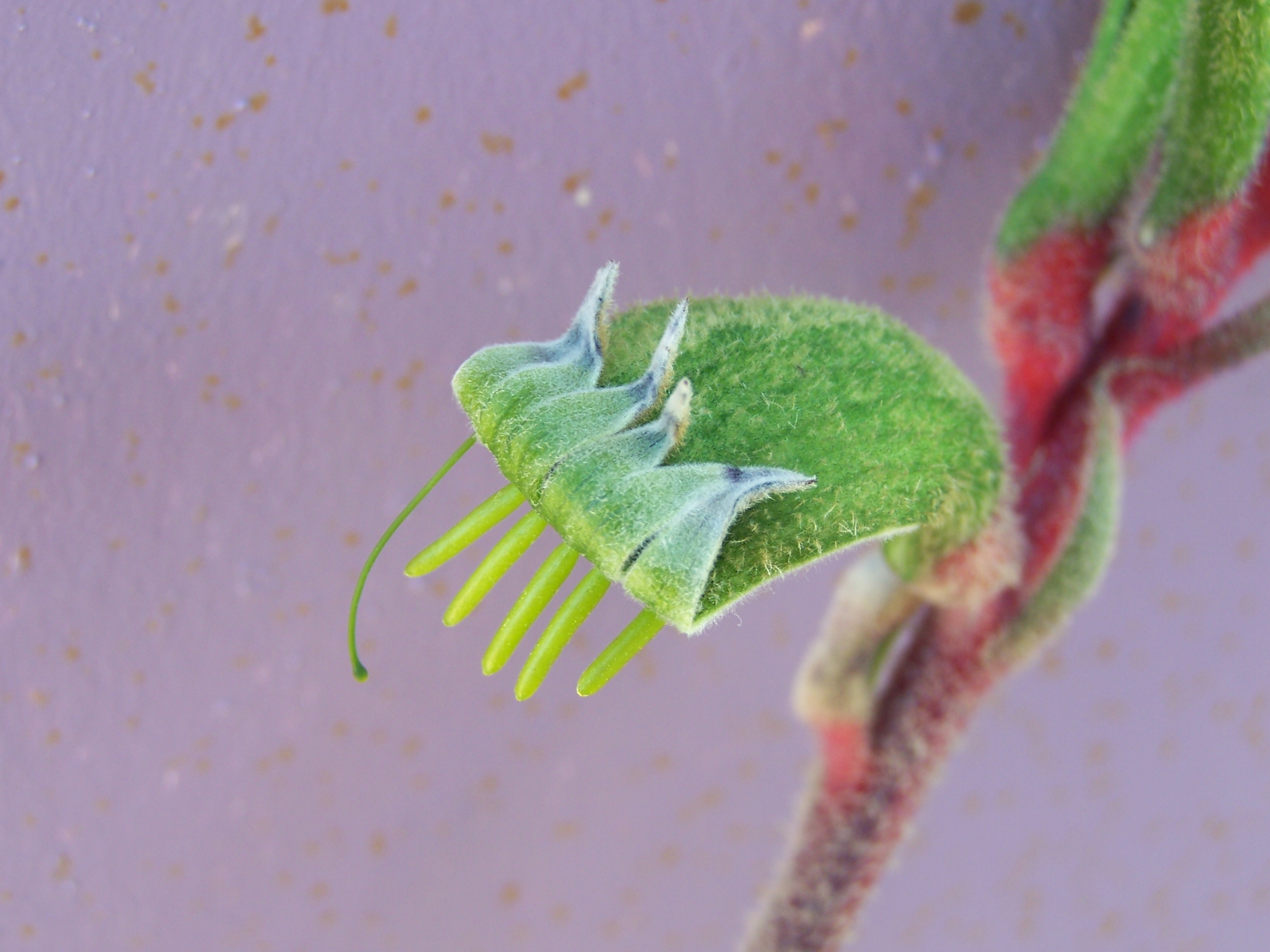 Anigozanthos manglesii , Red and Green Kangaroo Paw , Kangaroo Paw - close up of flower feature that gives it its name.